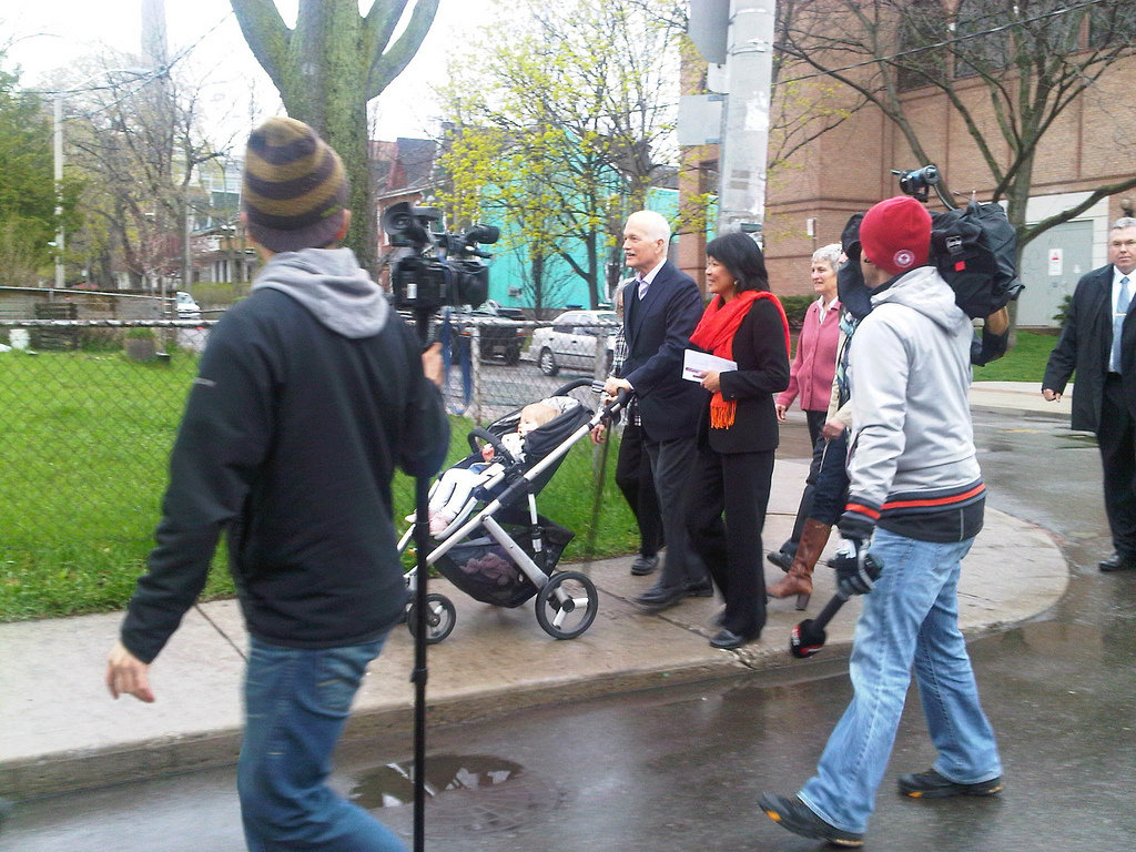 Photo by Heather Vaughan